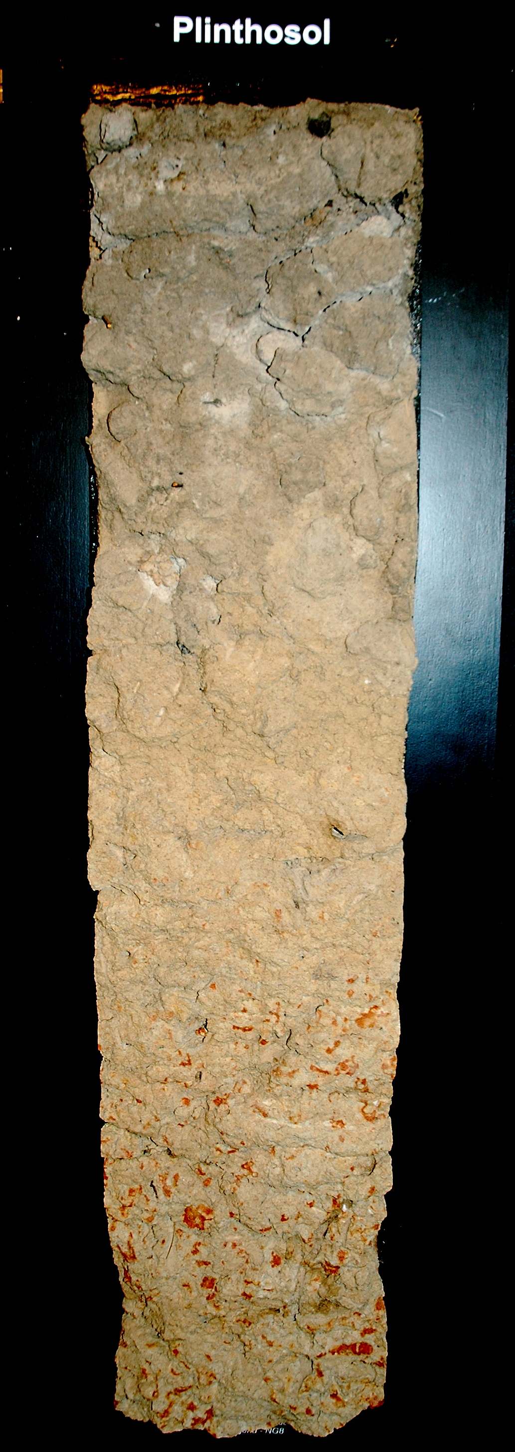 Soil profile of a Plinthosol from Nigeria